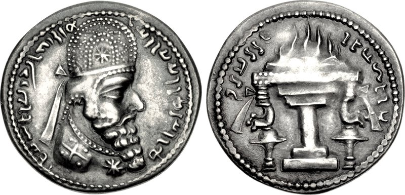 SASANIAN KINGS. Ardaxšīr (Ardashir) I. AD 223/4-240. AR Drachm (23mm, 3.79 g, 3h). Mint B ("Hamadan"). Phase 2c, circa AD 226/7-228/30. Bust right, wearing diadem (type G) and Parthian-style tiara decorated with star / Fire altar (flames 2b) with diadems (type G); no attendants. SNS type IIa(3a)/3a(2b); Göbl type II/4a/2; Paruck -; Saeedi -. EF, toned. Excellent metal quality.